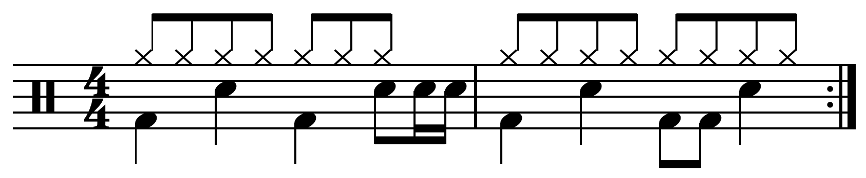 Sixteenth note fill in a rock/popular groove played on a drum kit.